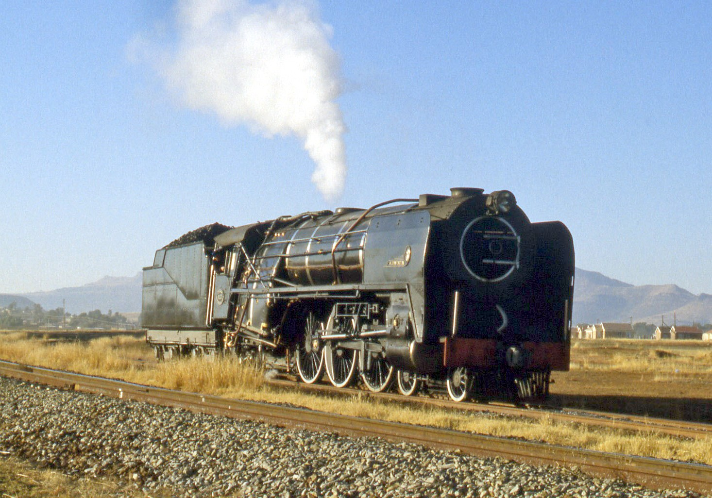 SAR Class 16E 857 (4-6-2) Location: Thaba Nchu, Free State